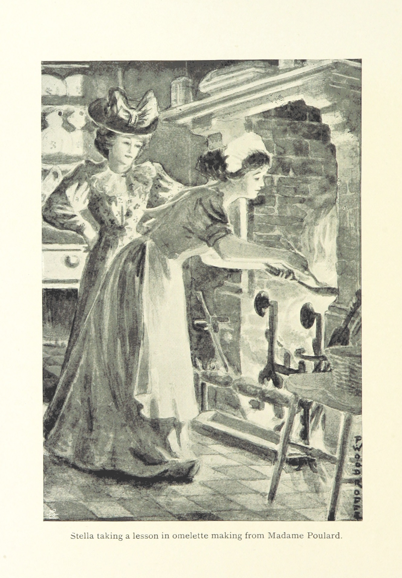 Illustration from Title: "Stella's Story. A Venetian tale ... With eight illustrations by Paul Woodroffe" Author: DALE, Darley - pseud. [i.e. Francesca Maria Steele.] Shelfmark: "British Library HMNTS 012626.k.13." Page: 96 Place of Publishing: London Date of Publishing: 1897 Publisher: J. S. Virtue & Co. Issuance: monographic Identifier: 000853292